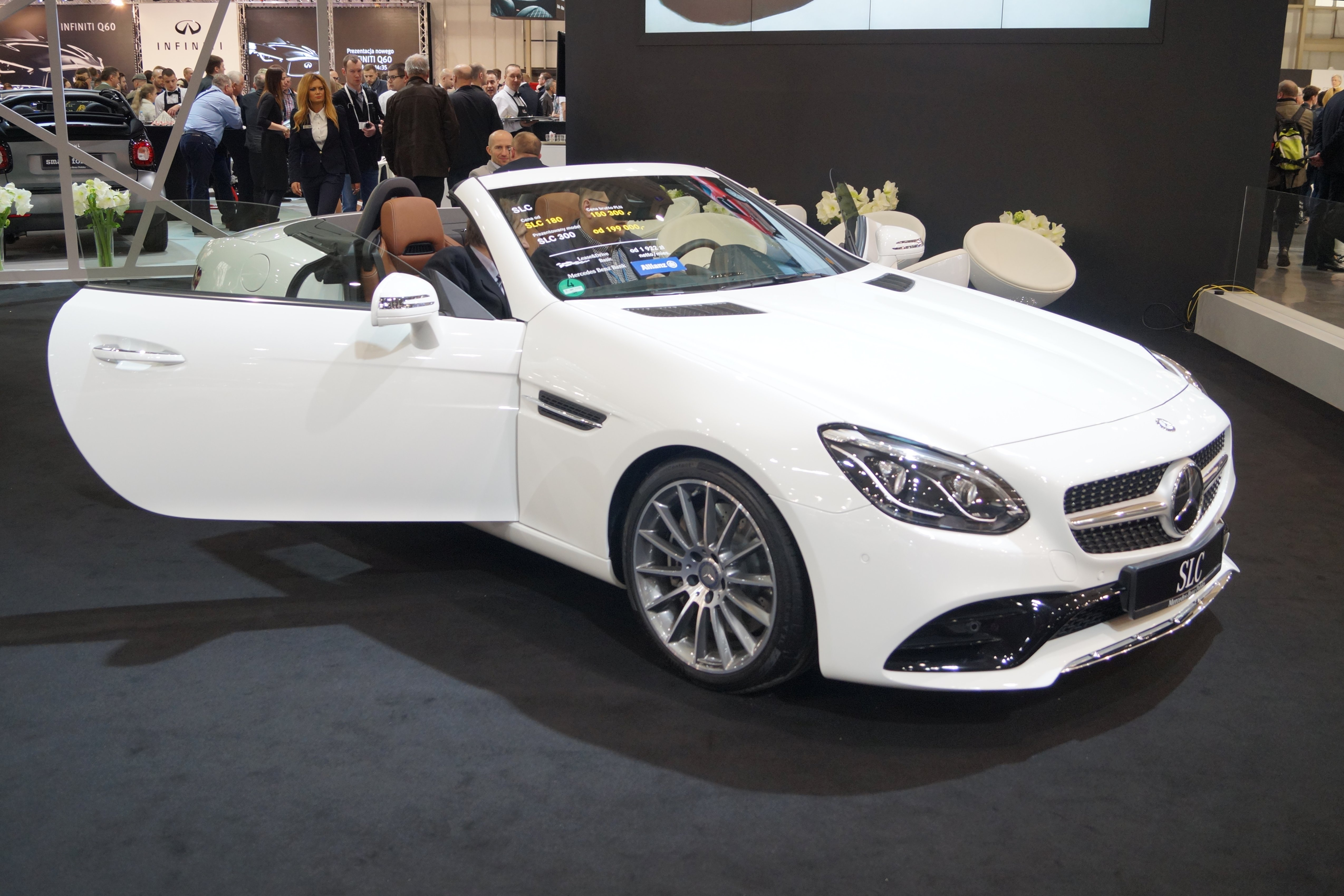 The making of this document was supported by Wikimedia Polska Association, within Wikigrant no. WG 2016-10. Mercedes-Benz SLC 300 (R172) na Motor Show Poznań 2016